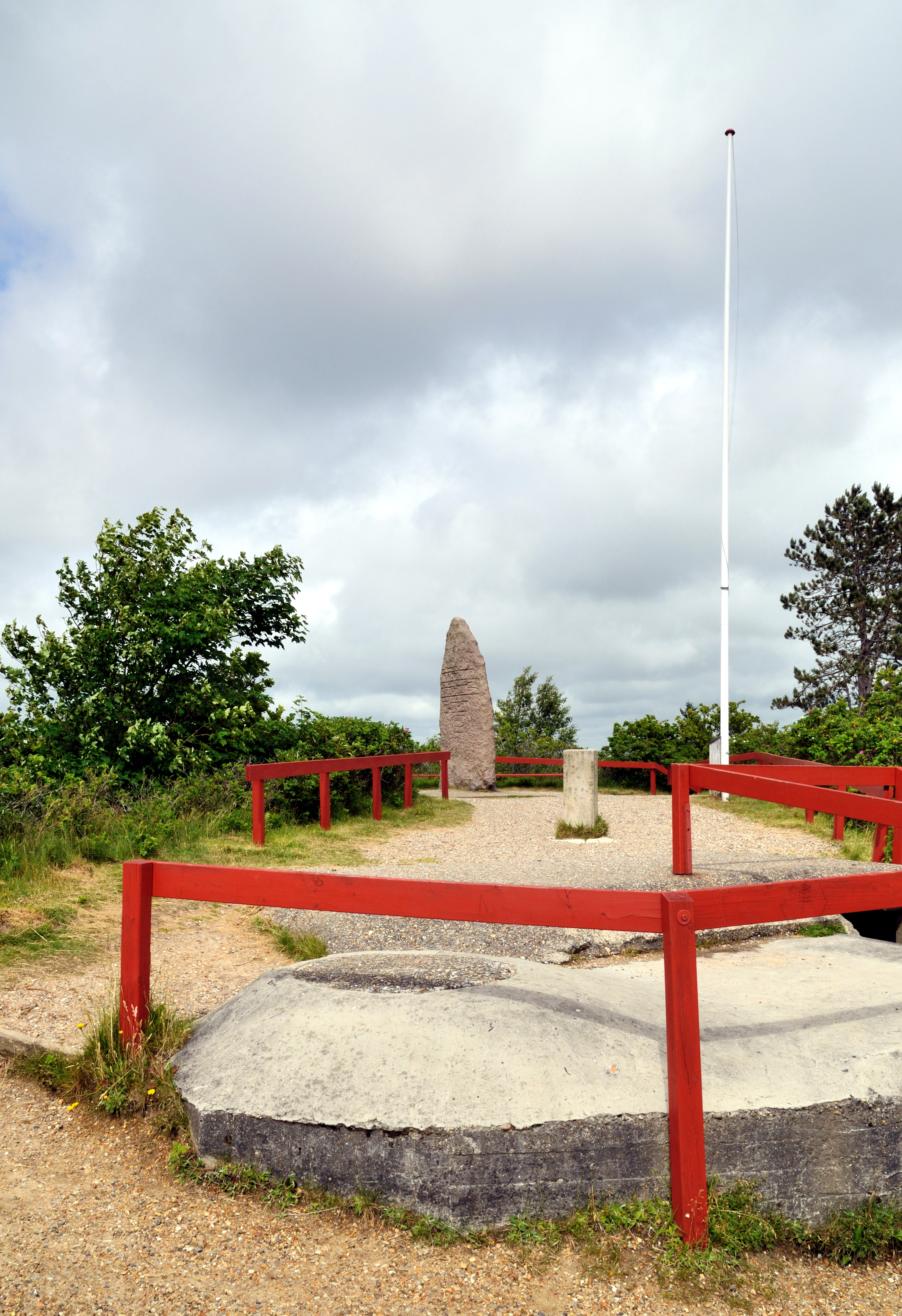 Blåbjerg